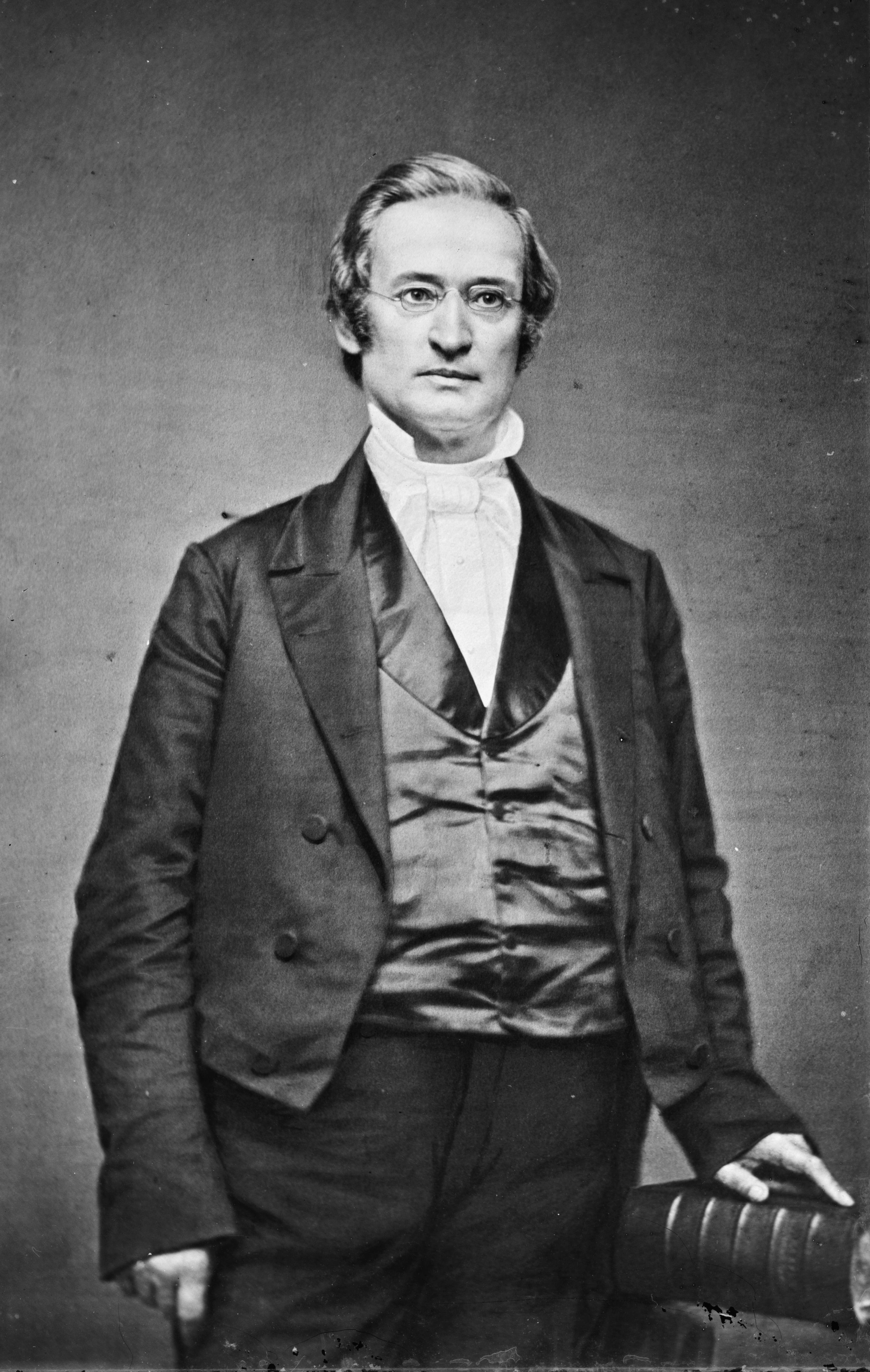 Osman Cleander Baker. Library of Congress description: "Bishop O. C. Baker"